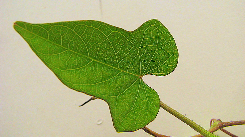 Ipomoea tiliacea (Willd.) Choisy